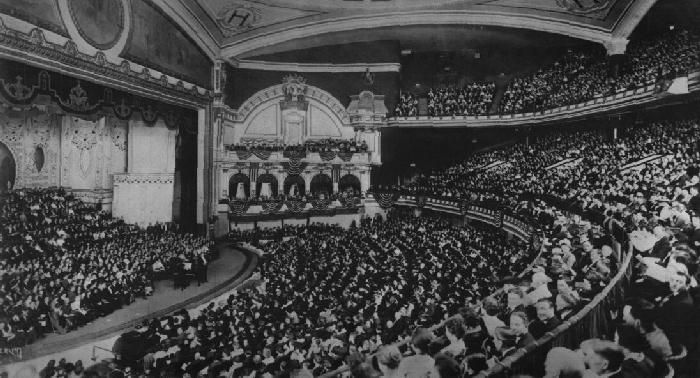 Publicity photograph John McCormack in the New York Hippodrome taken during his 1915-1916 season.